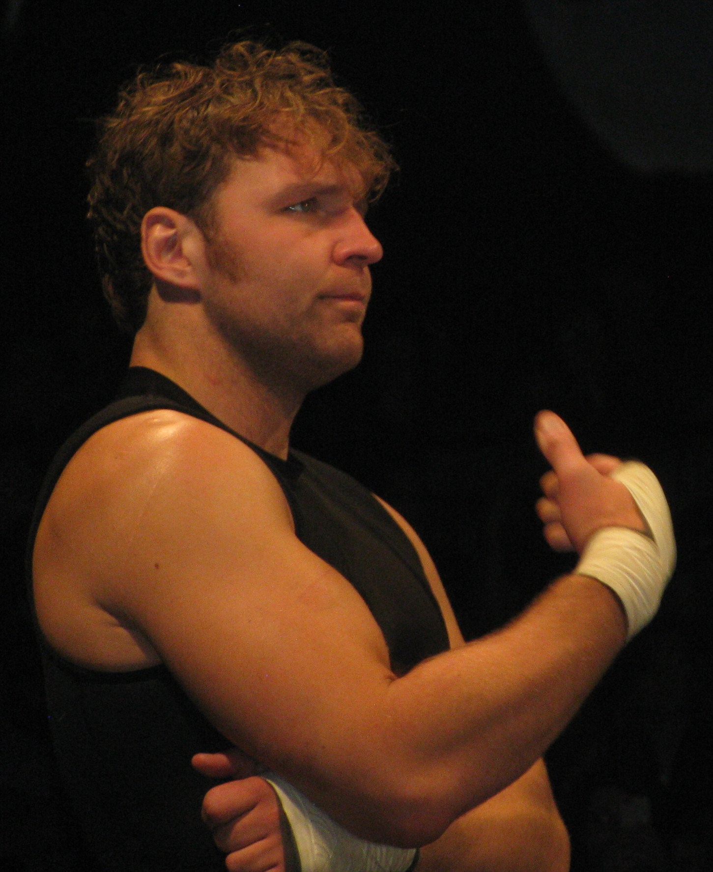 Dean Ambrose @ Adelaide, South Australia WWE house show on the 29th of July '13